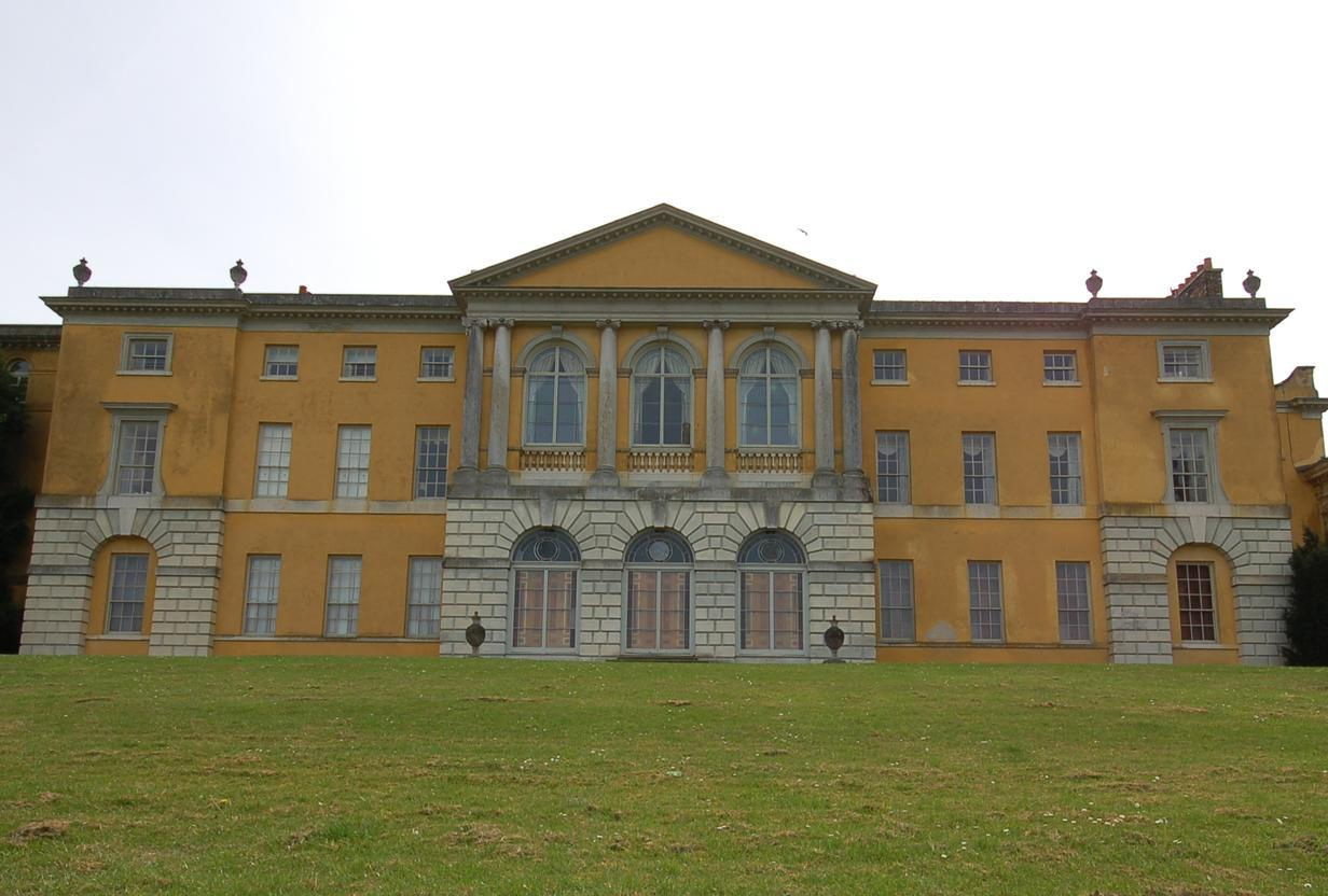 North Front of West Wycombe, West Wycombe Park, Buckinghamshire, England.